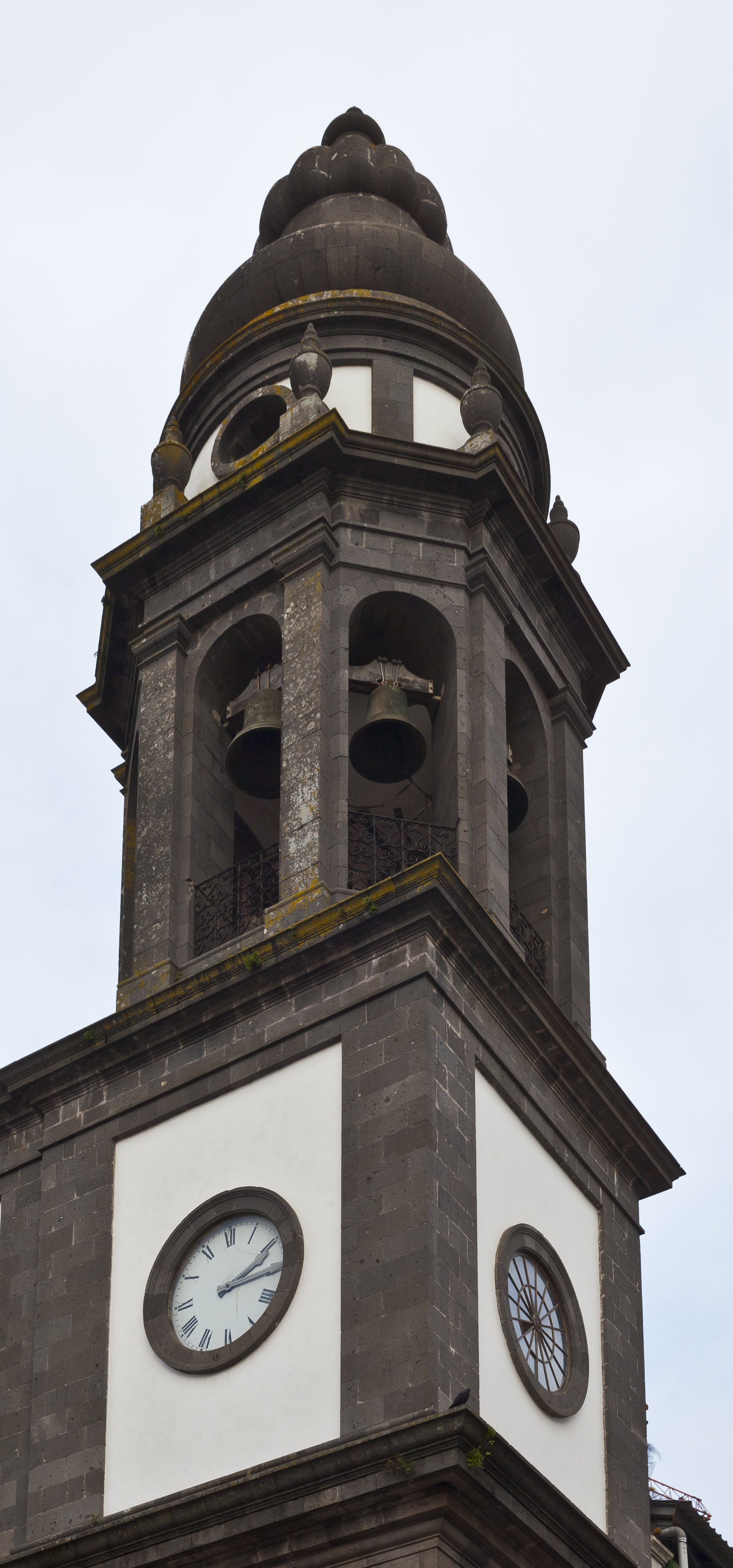 La Laguna Cathedral, San Cristóbal de La Laguna, Tenerife, Spain